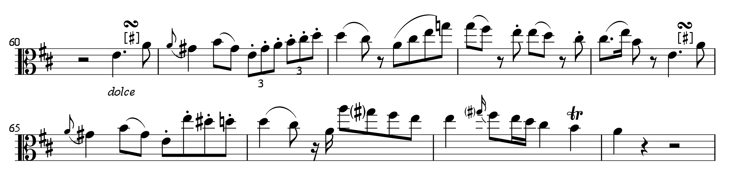 Second theme in the viola solo. From Hoffmeister's viola concerto in D.